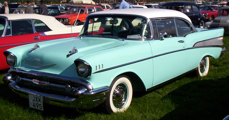 Chevrolet Bel Air Series 2400C, Model 2454 2-door sport coupe 1957